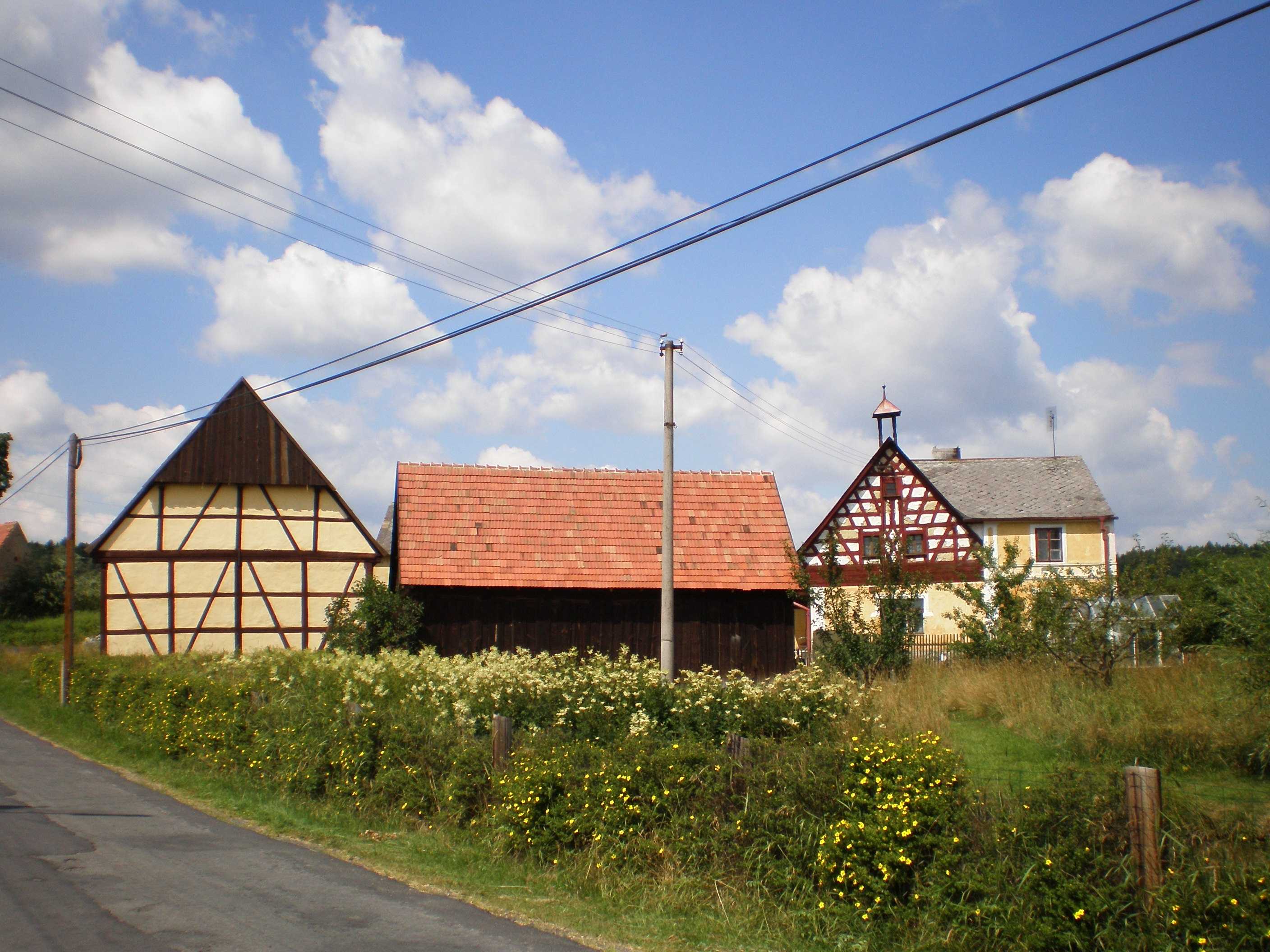 Municipality of Poustka, Cheb District, Cze ch Republic.